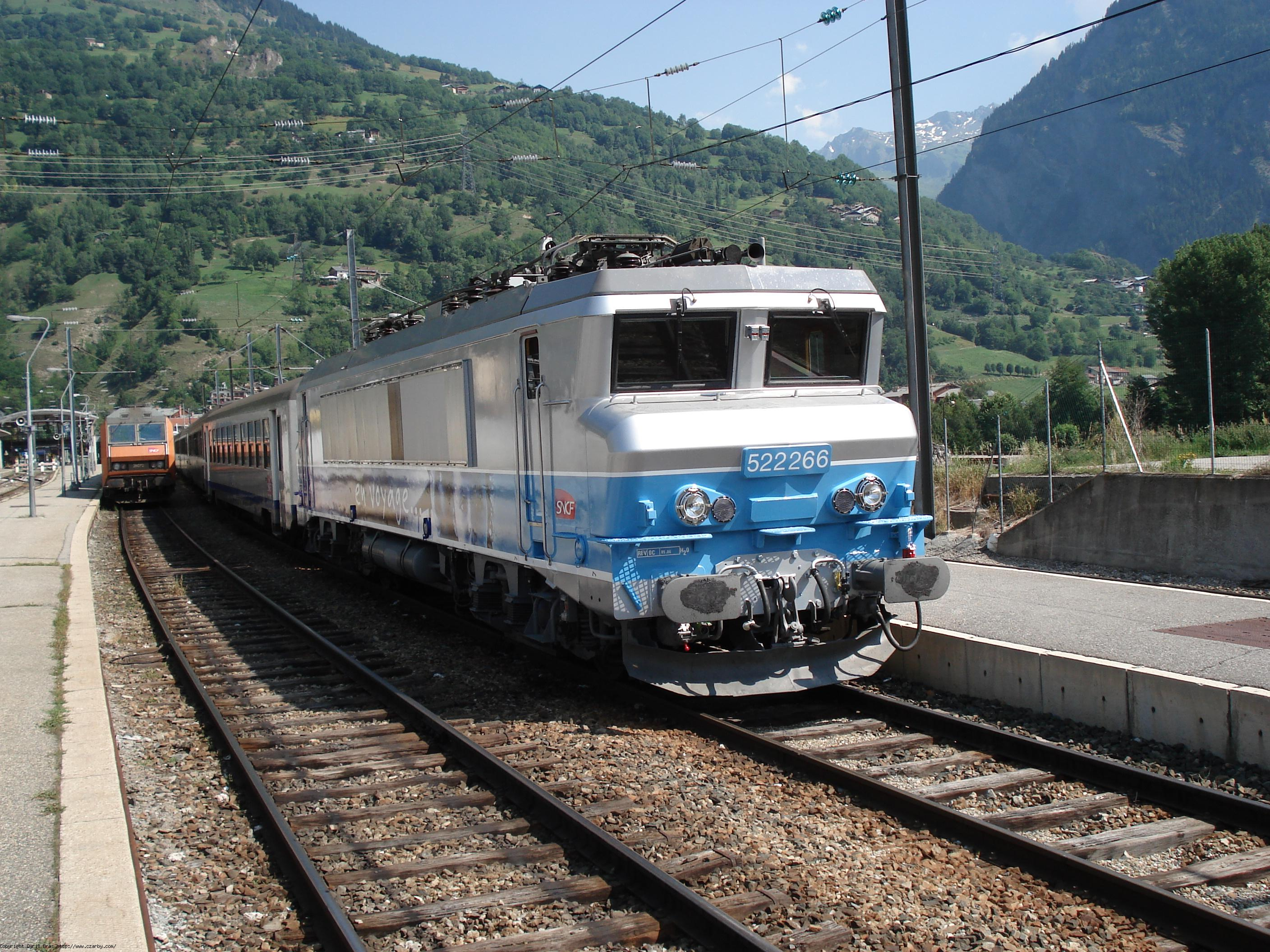 22266 at Bourg Saint Maurice, July 2006